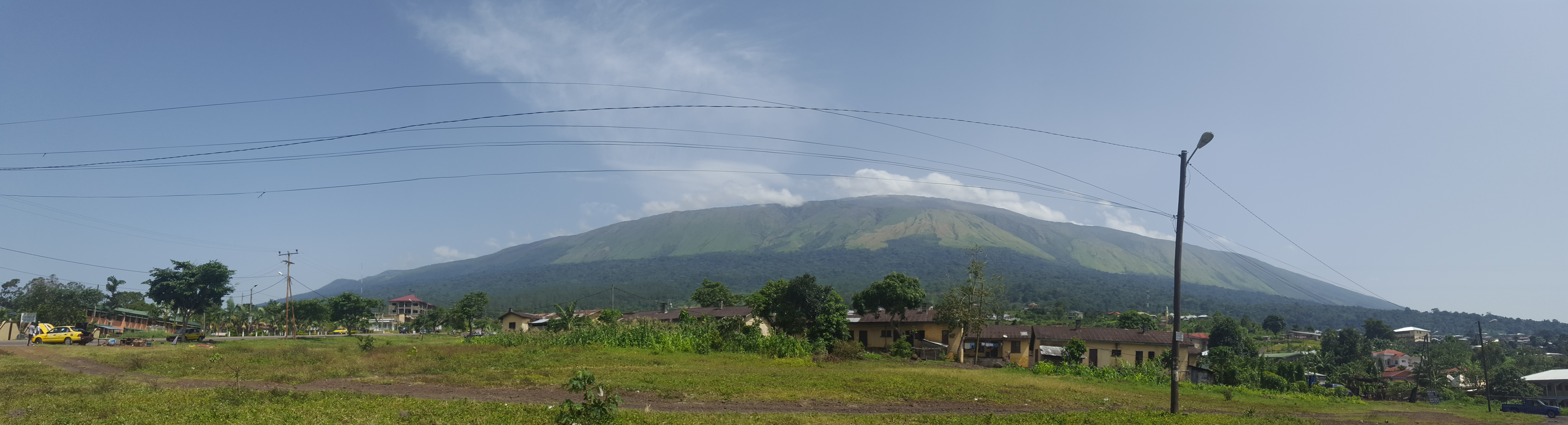 This is Mount Fako, located in the Fako division of the South West region of Cameroon. It is the tallest peak in the west africa. This picture was taken in Buea.